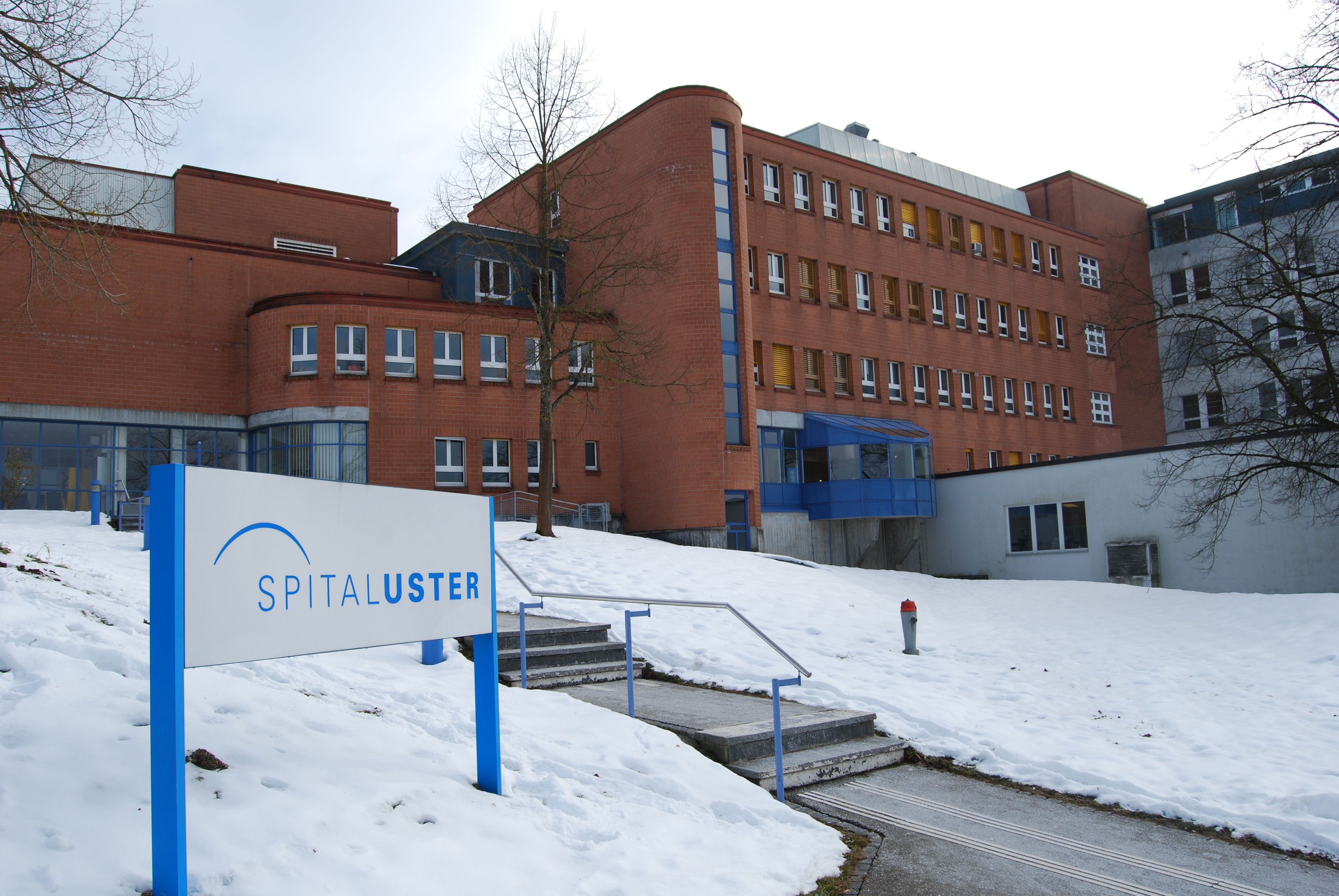 Uster Hospital, canton of Zürich, Switzerland